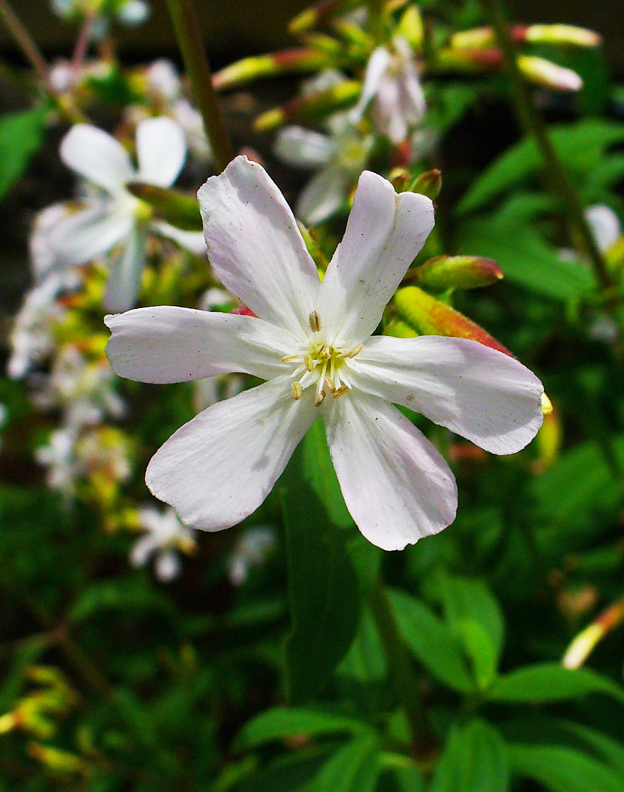 Saponaria officinalis, Caryophyllaceae, Common Soapwort, flower. Karlsruhe, Germany.